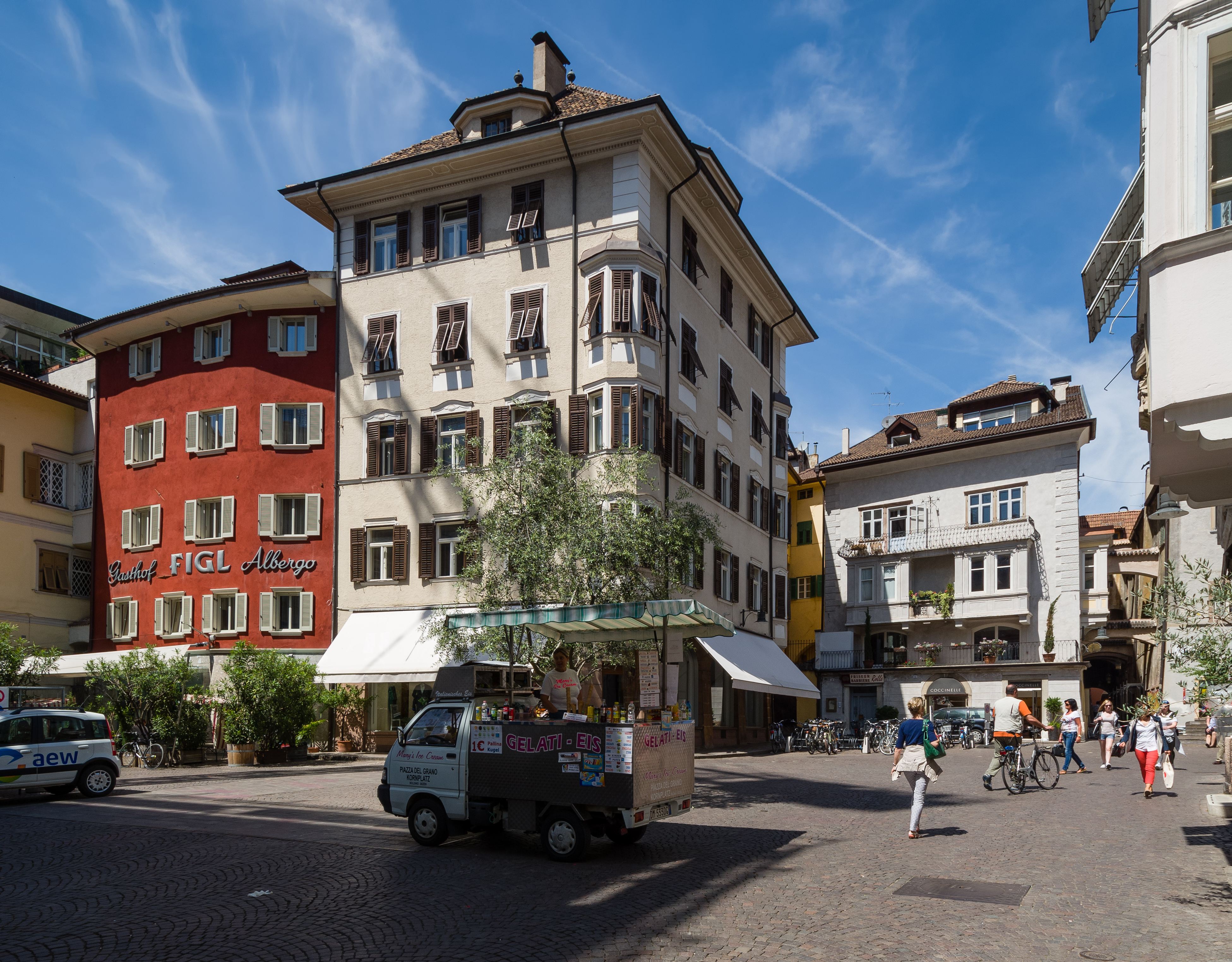 Square of Corn (Kornplatz) in Bozen